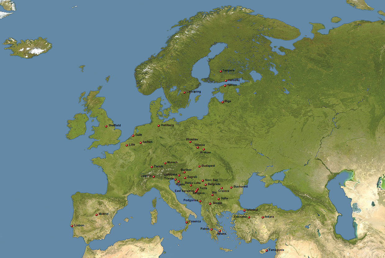 Map of EESTEC Local Committees